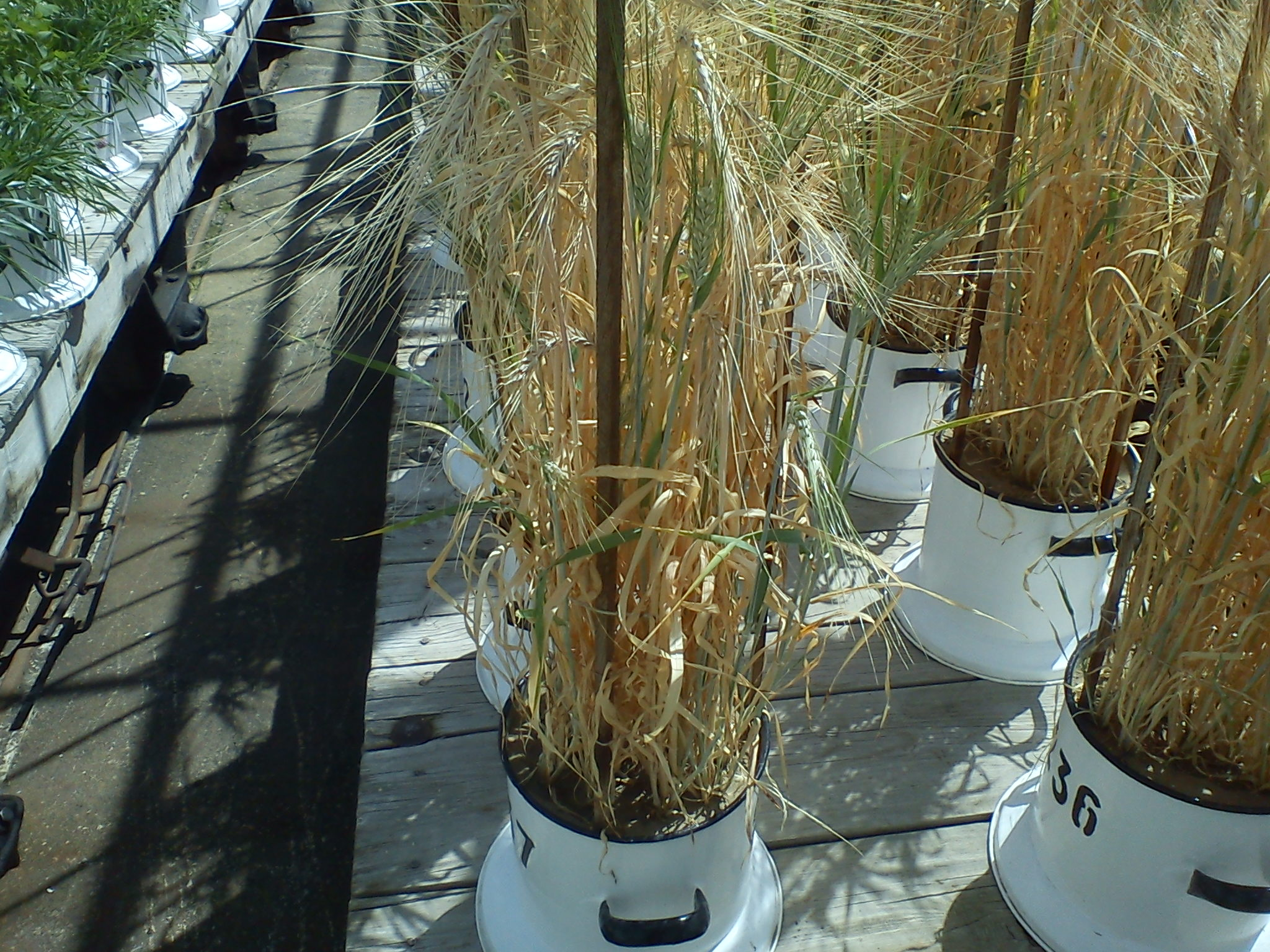 Agricultural research on barley in Institute of Soil Science and Plant Cultivation in Puławy (Poland).